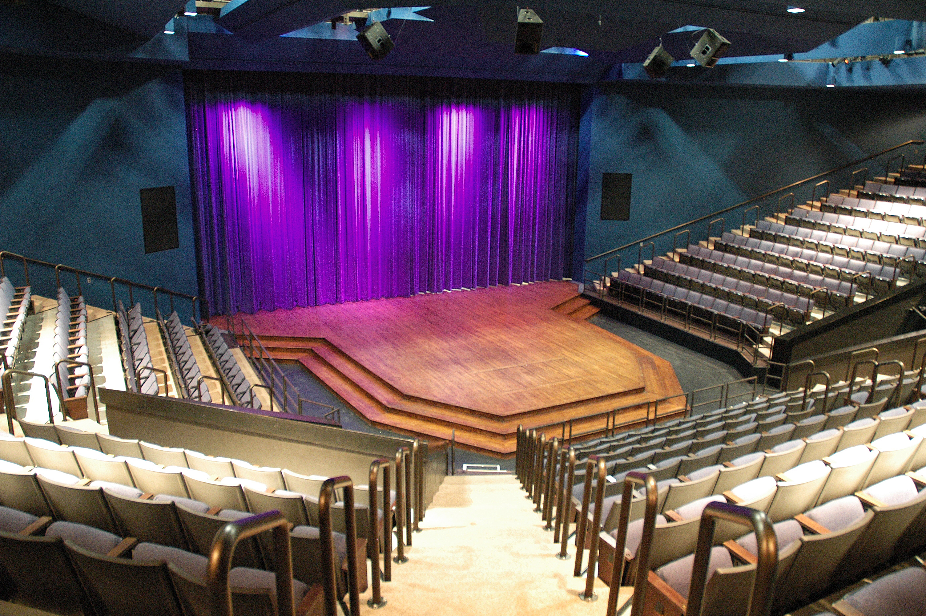 Pasant Theatre thrust stage from seats